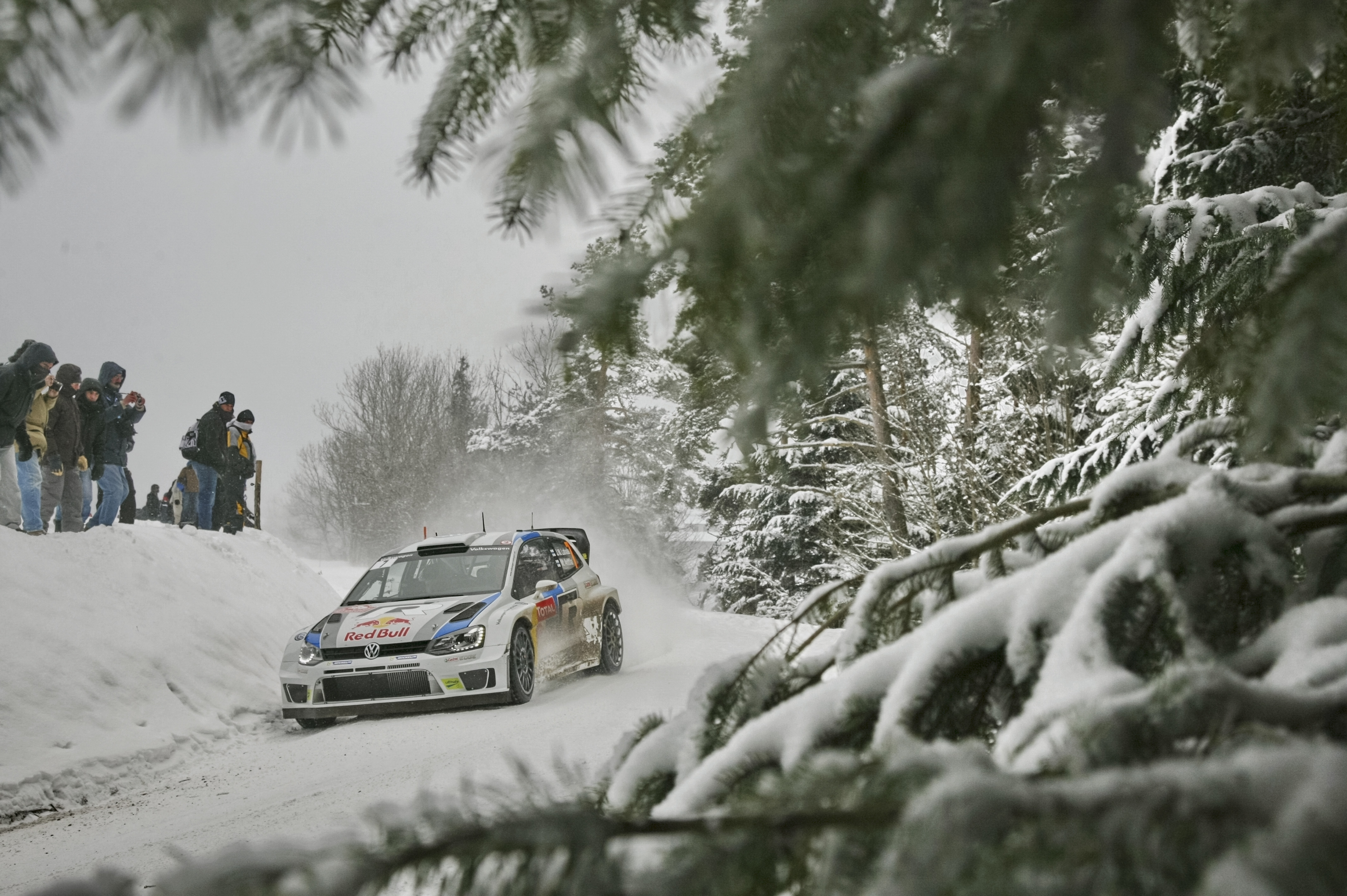 Jari-Matti Latvala and co-driver Miikka Anttila in their Volkswagen Polo R WRC at the 2013 Rallye Automobile Monte-Carlo.